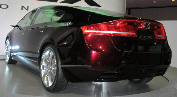 Honda FCX at the 2006 Kuala Lumpur International Motor Show